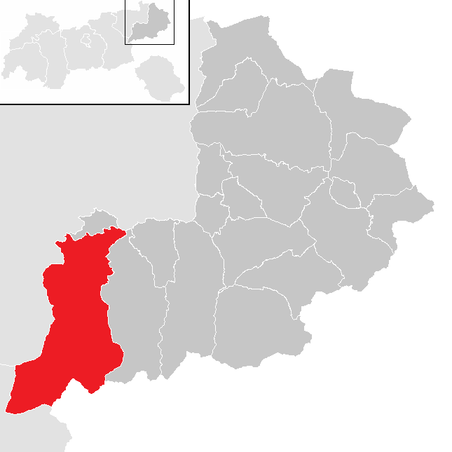 District Kitzbühel